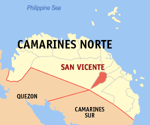 Map of Camarines Norte showing the location of San Vicente